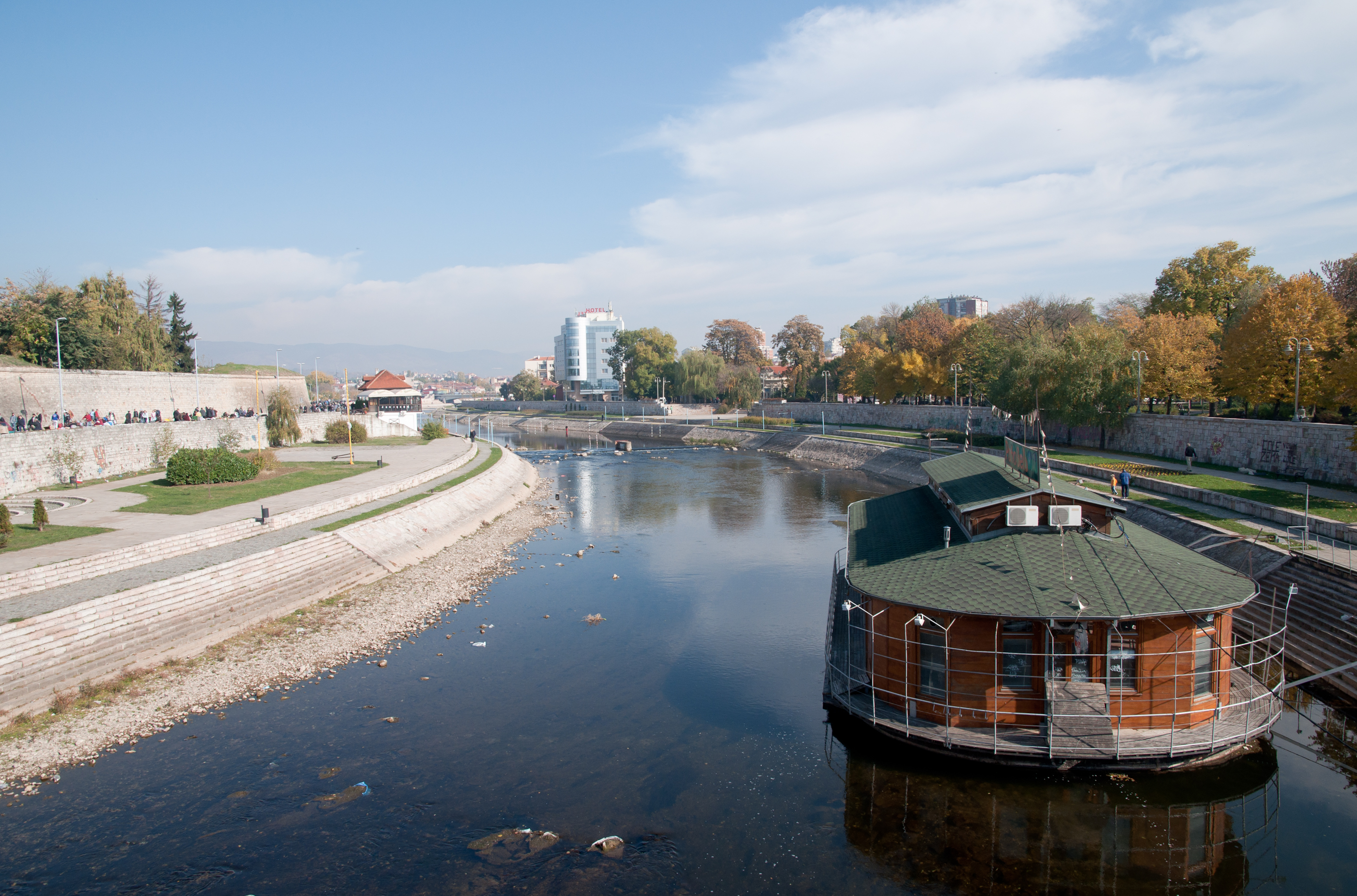 Nišava River in the city of Niš, Serbia.